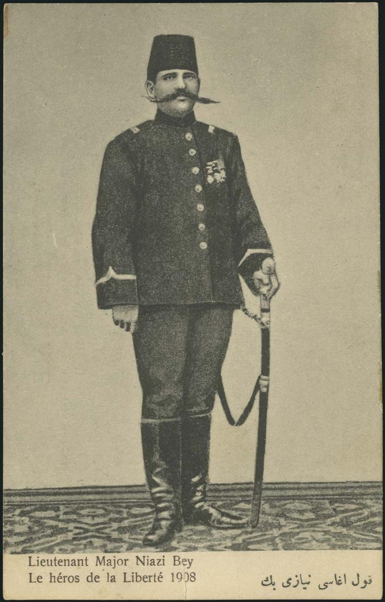 Postcard of Lieutenant Major Niazi Bey, "The hero"es" [sic] of Liberty" (1908)